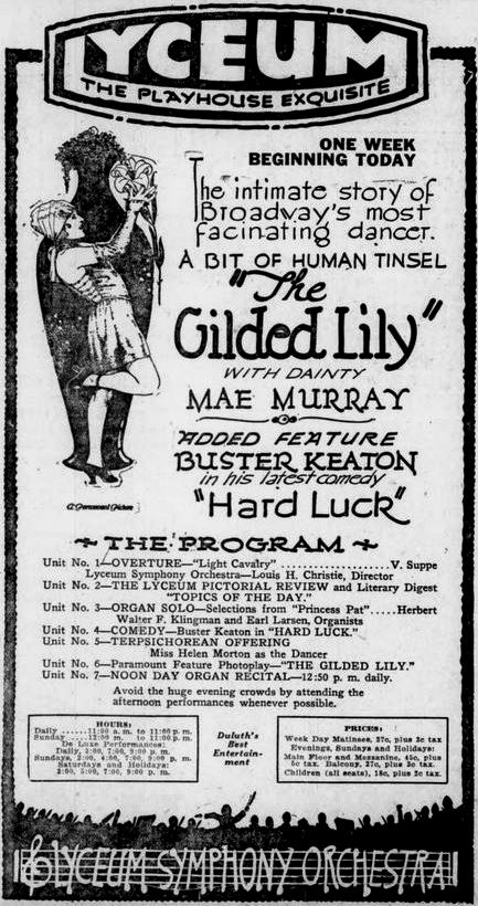 Newspaper advertisement for the American drama film The Gilded Lily (1921) with Mae Murray, on page 9 of the June 11, 1921 Duluth Herald.